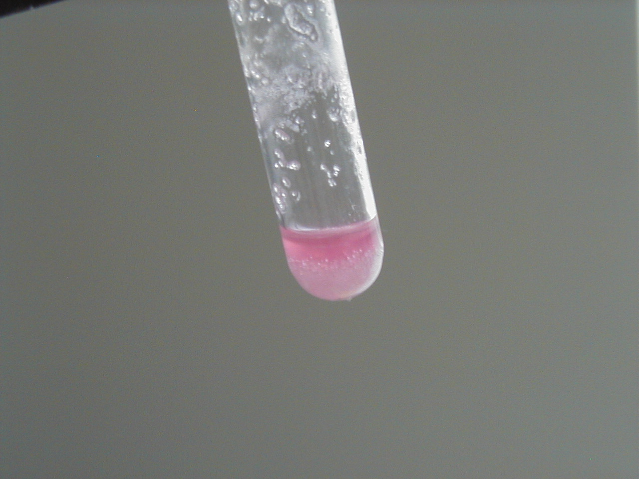 At normal temperatures again a mixture of sodium chloride and cobalt chloride